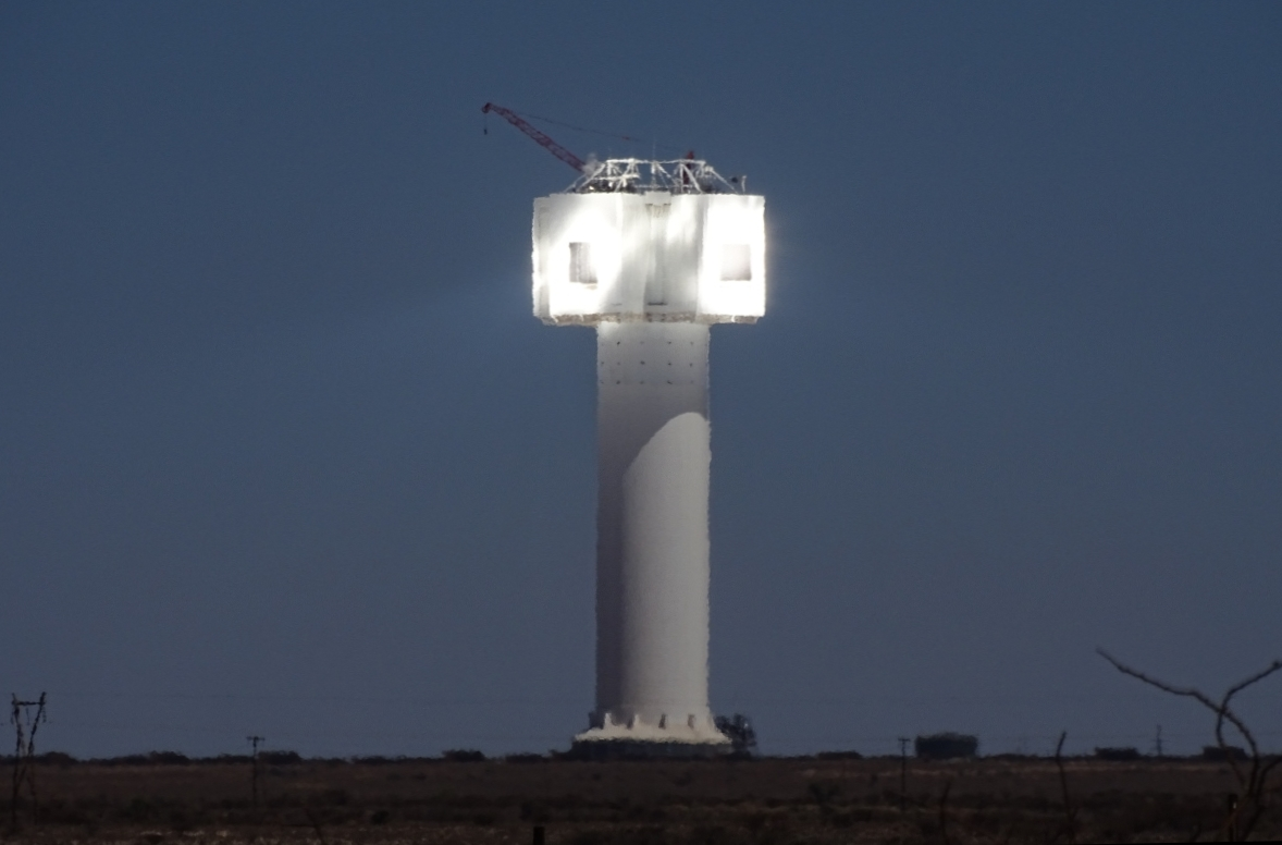 Solar One seen from outside the plant (Kanoneiland)